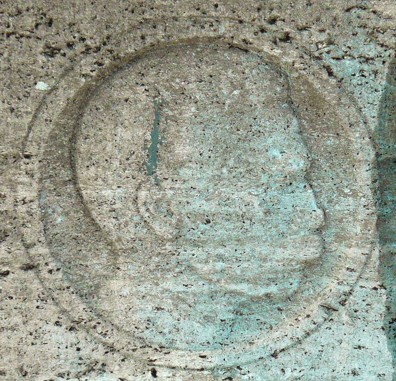 Robert Jaeckel, Director of Poznan Old ZOO (1881-1907)